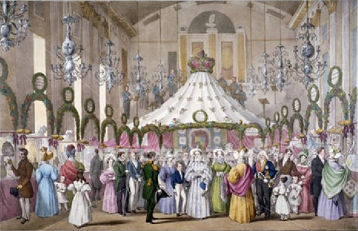 Prospectus of the Hanover Square Rooms, when Her Majesty took the Private View of the Fancy Fair in aid of foreigners in distress on the 19th June 1833